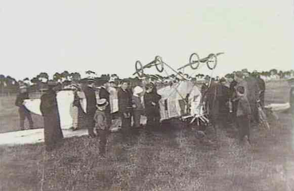 The wreckage of Douglas Mawson's Vickers R.E.P. Type Monoplane after it crashed in a test flight at Cheltenham Park Racecourse in Adelaide. Originally published in The Advertiser.